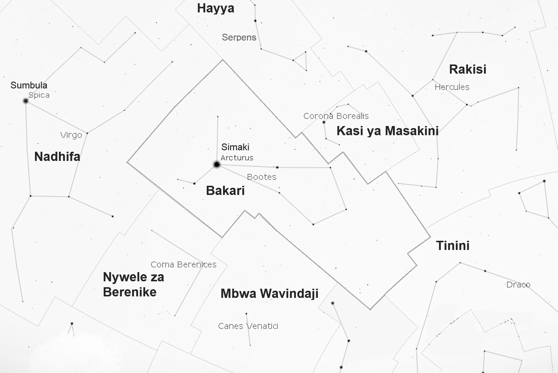 Constellation Bootes as seen from Tanzania, Swahili labelled Kiswahili: Kundinyota Bakari (Bootes) jinsi inavyoonekana kutoka Tanzania, majina kwa Kiswahili